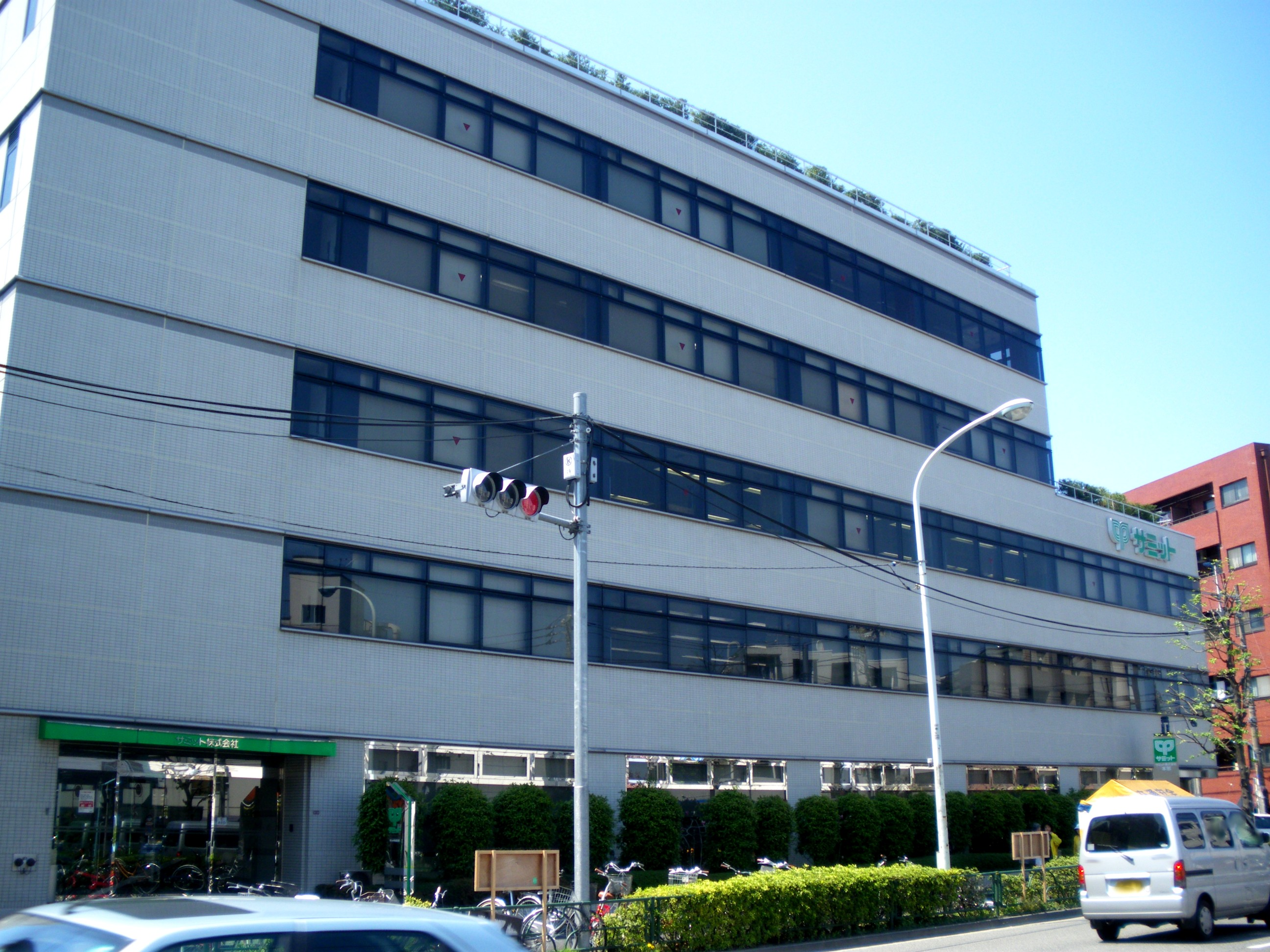 Summit(supermarket chain in Japan)head office(Eifuku,Suginami,Tokyo)